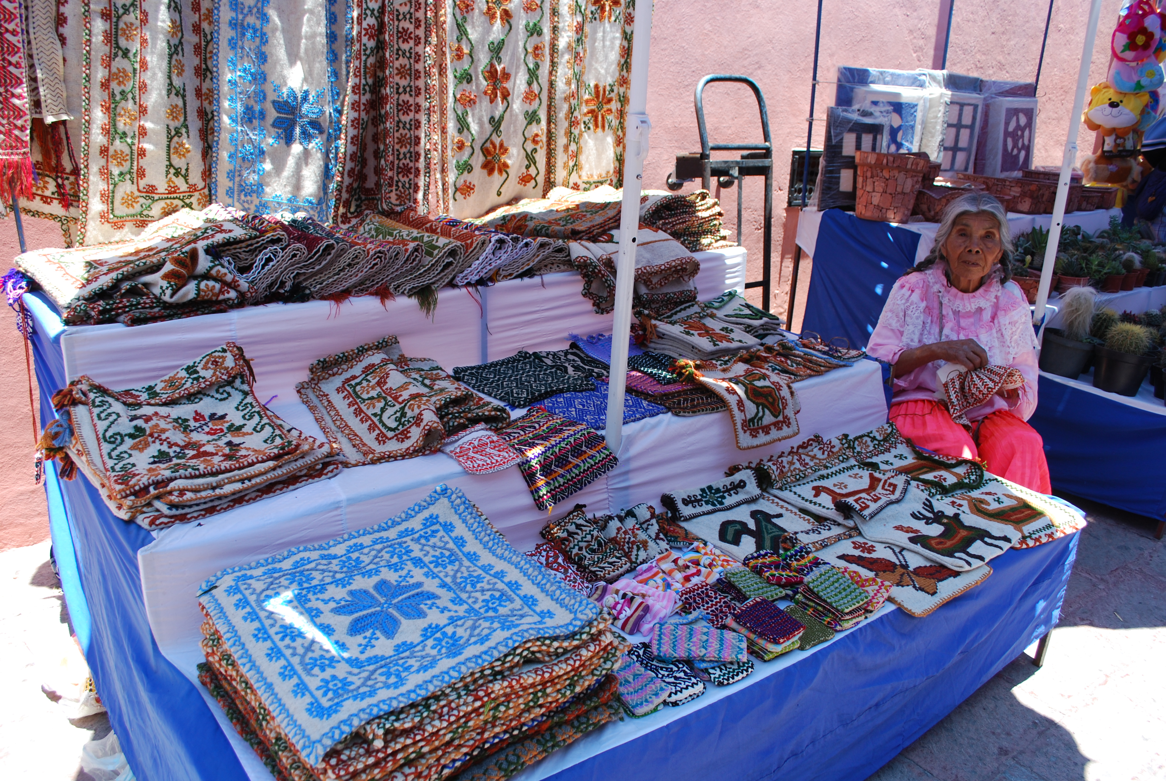 Woman selling Otomi embroidery in Tequisquiapan, Queretaro, Mexico